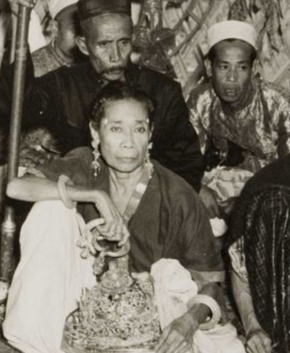 A woman holding the Salakoa crown, part of the regalia of the South Sulawesi kingdom of Gowa, during the coronation of Sultan Muhammad Abdul Kadir Aidudin, the last Karaeng Gowa